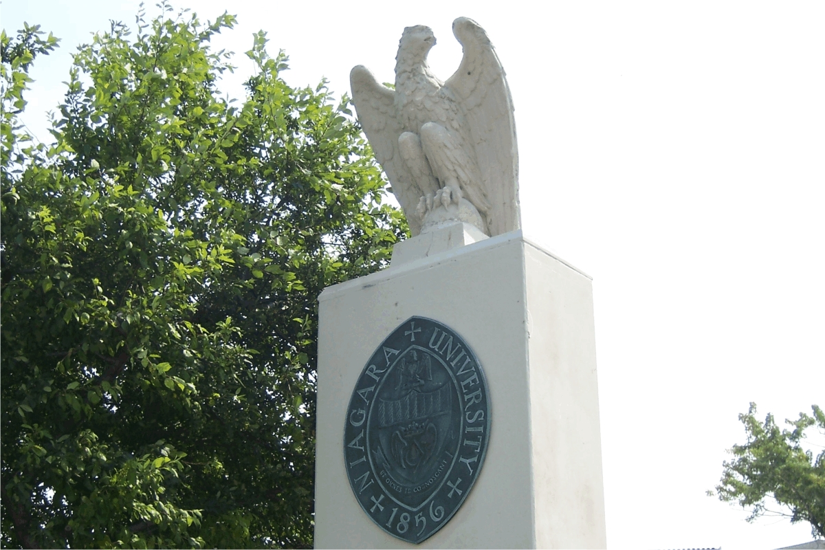 Seal of Niagara University and eagle at main entrance